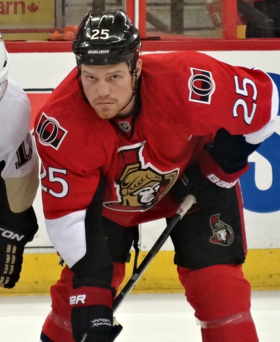 Ottawa Senators forward Chris Neil during game three of their second round series against the Pittsburgh Penguins, May 19, 2013 at Scotiabank Place in Ottawa, Canada.